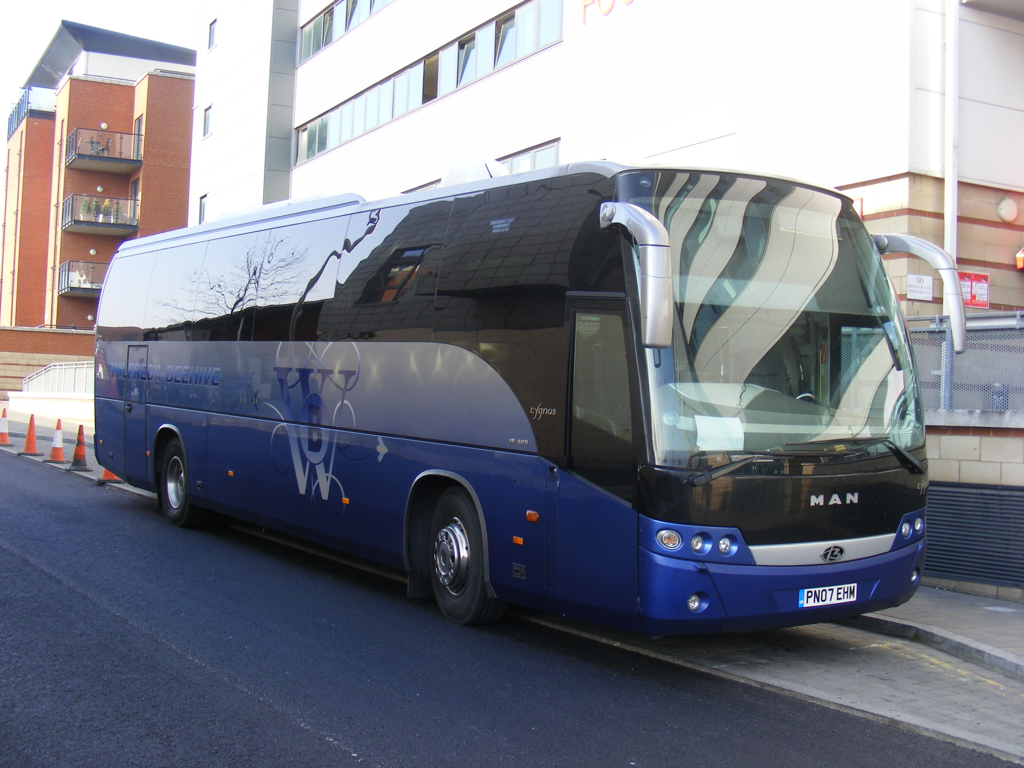 MAN - Cygnus PN07 EHM SHeffield Wednesday team coach.